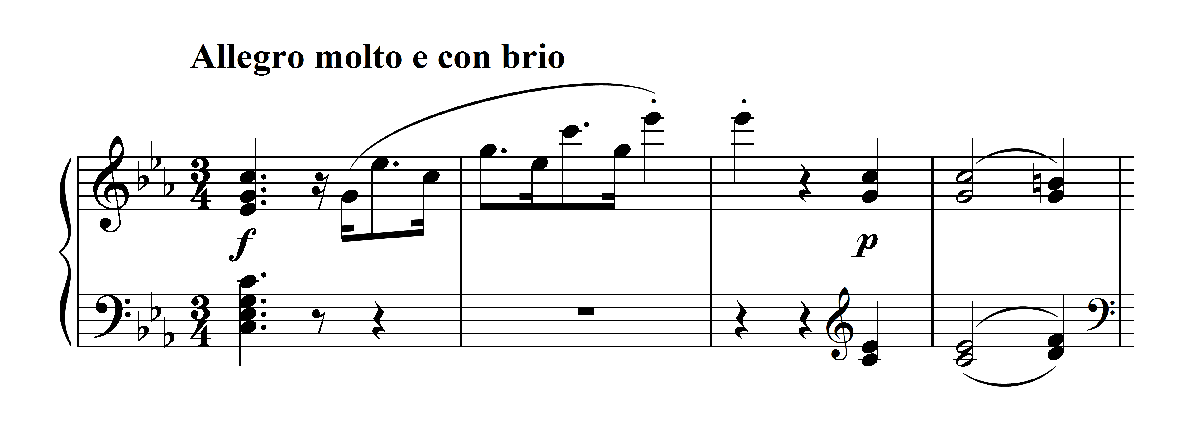 Opening four bars of Ludwig van Beethoven's 5th Piano Sonata.